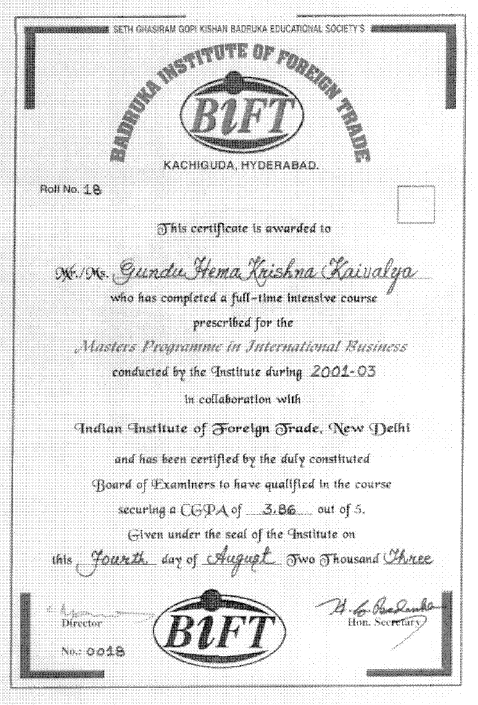 Master's Programme in International Business Degree Certificate (2001-03) offered by Badruka Institute of Foreign Trade, Hyderabad in Collaboration with Indian Institute of Foreign Trade, New Delhi.